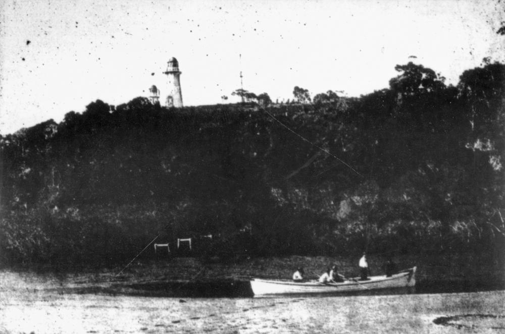 Sea Hill Lighthouse at Keppel Bay, Queensland, 1908 Boat passing near Sea Hill Lighthouse.